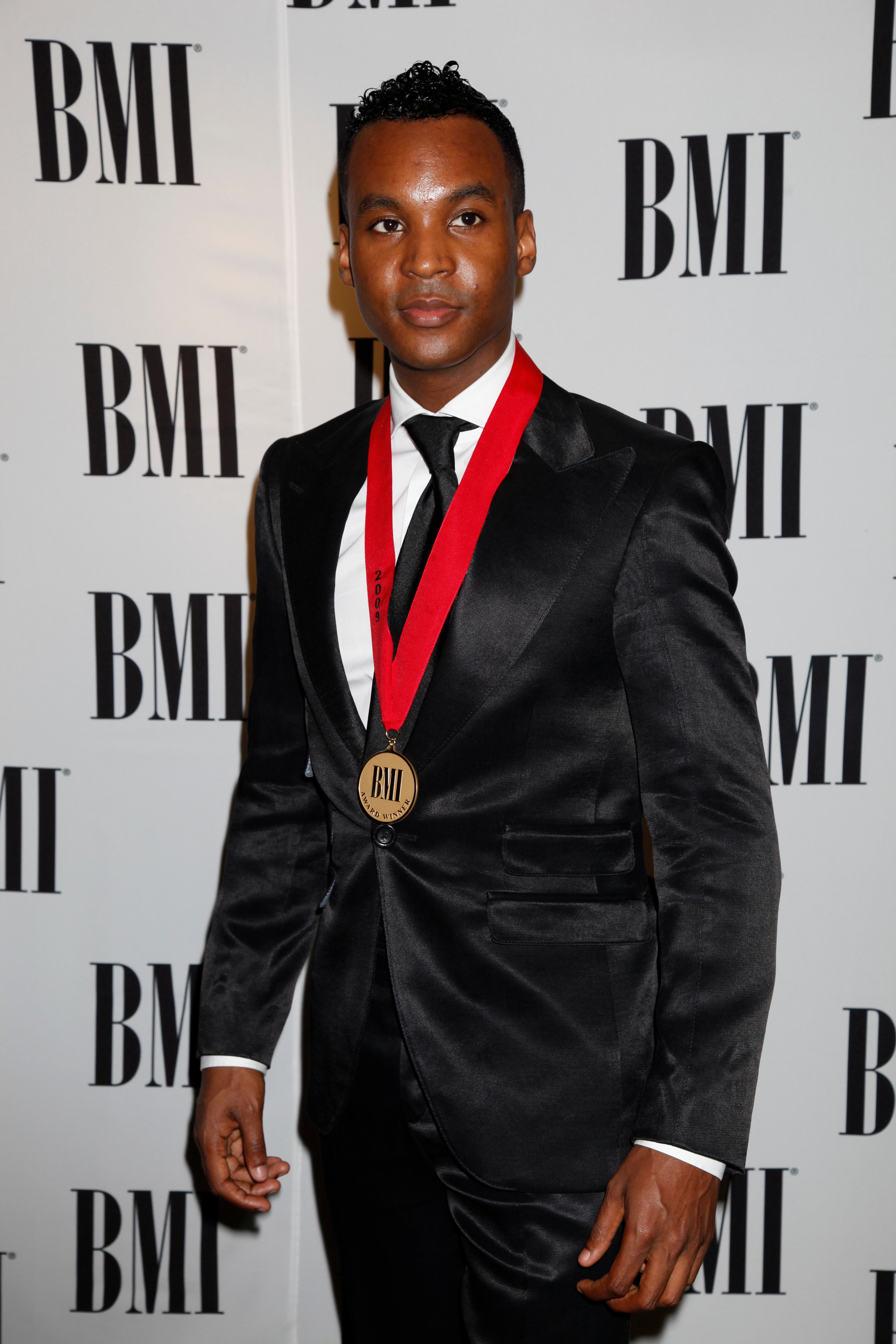 Giorgio Tuinfort BMI Awards